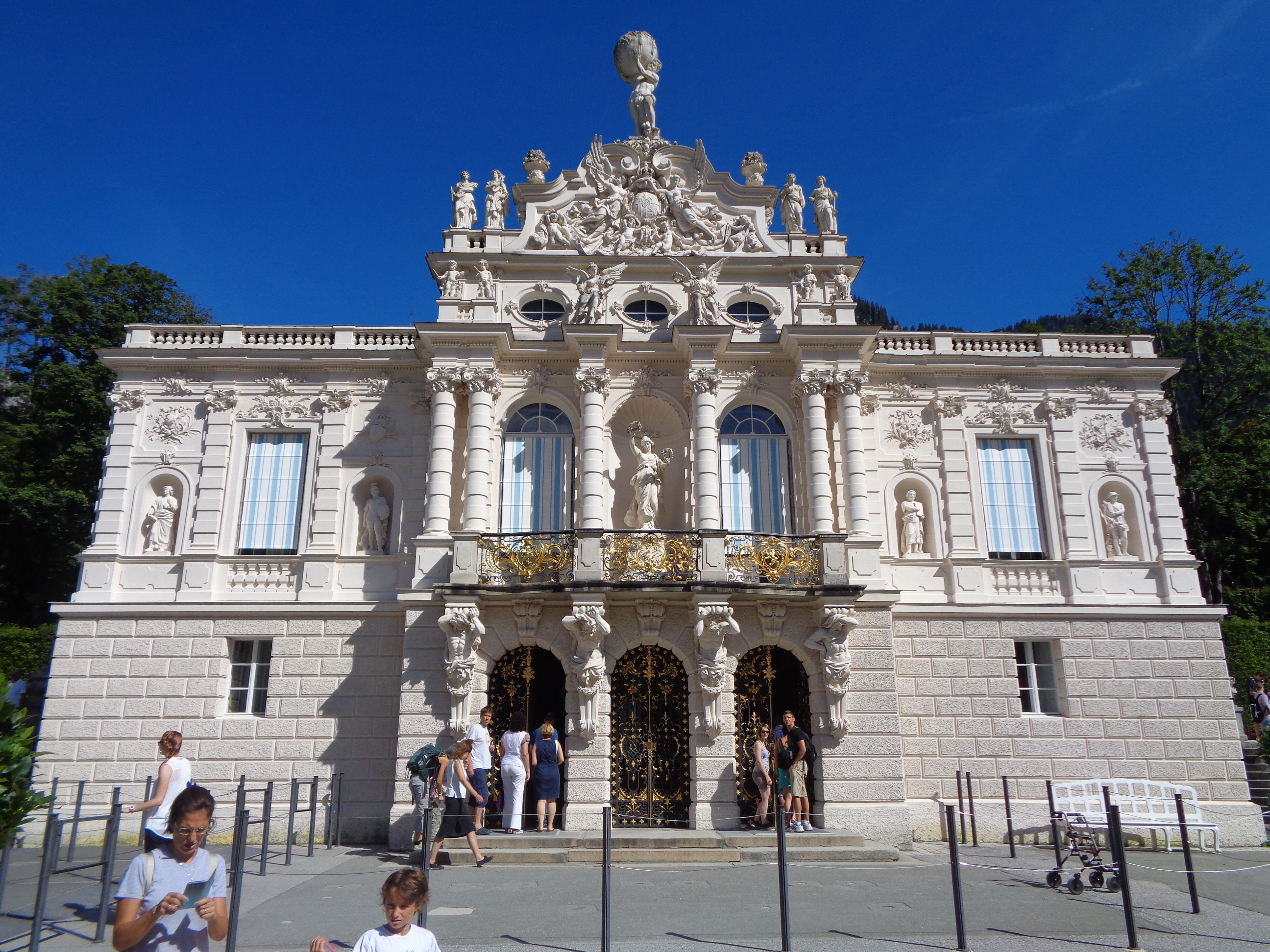 Linderhof Castle, Bavaria (Germany) - southern front view